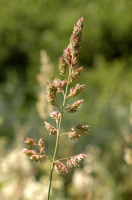 Picture taken in Commanster, Belgian High Ardennes . Species: Phalaris arundinacea